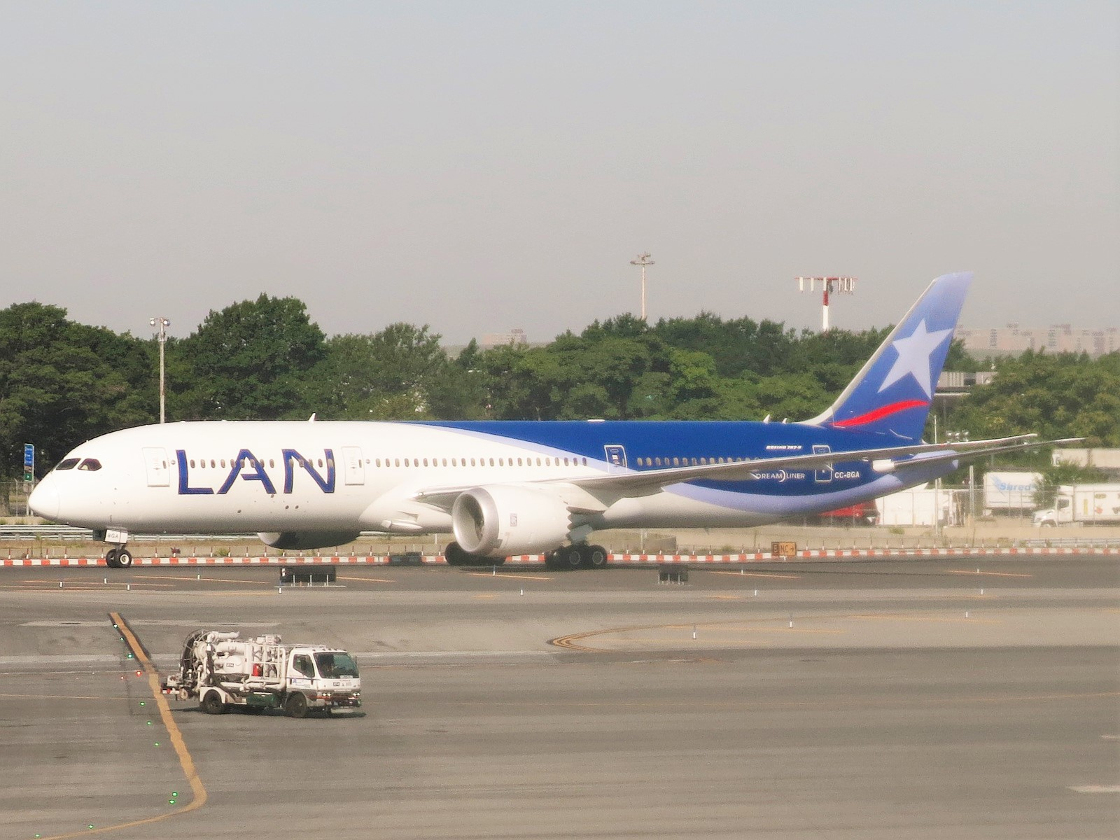 A LAN Airlines Boeing 787-9 Dreamliner is taxiing to its arrival gate at Terminal 8 at John F. Kennedy International Airport after arriving from Santiago.